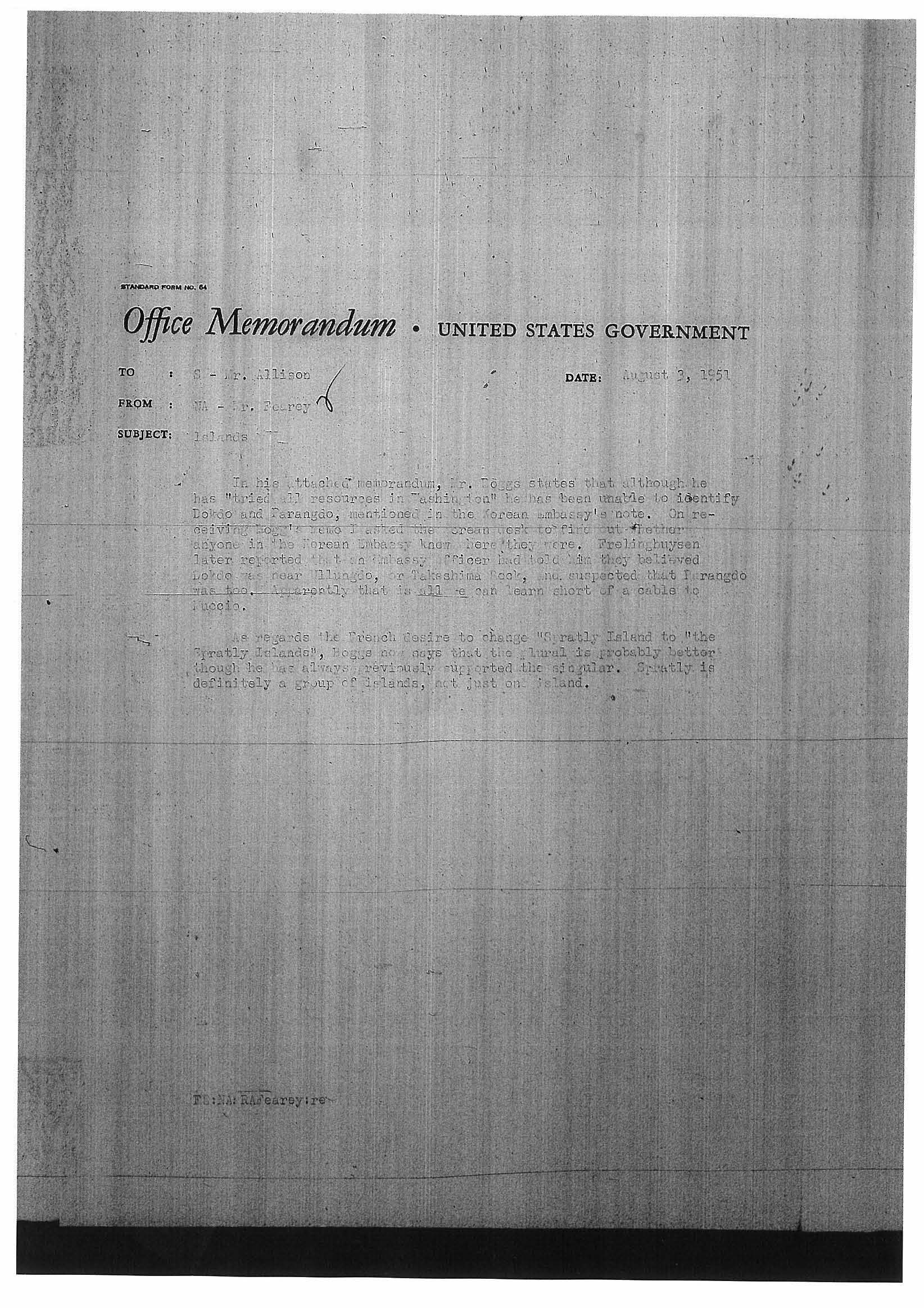 US investigation of Liancourt Rocks